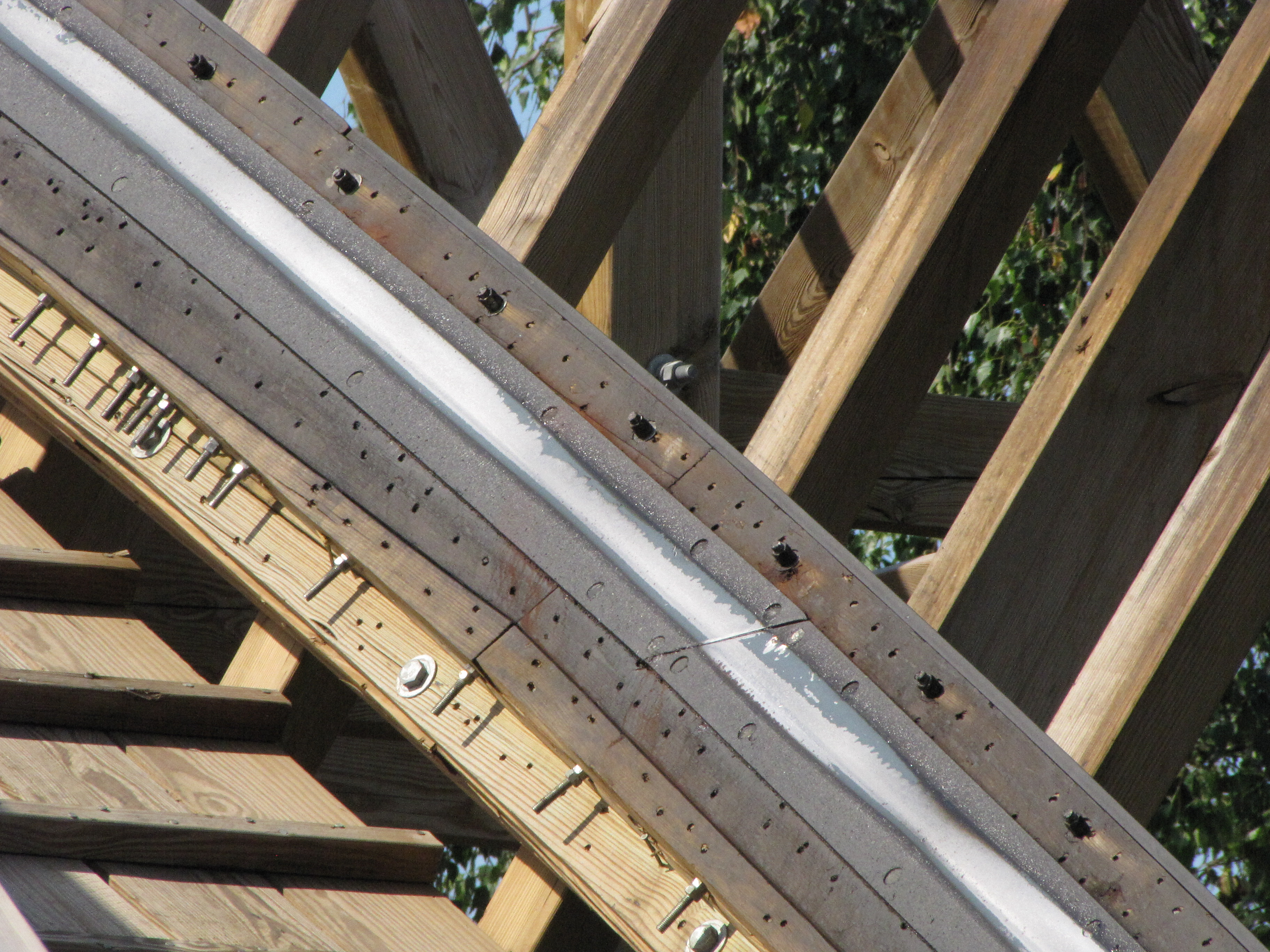 The image shows the rail of the wooden roller coaster Wodan- Timburcoaster at Europa-Park.